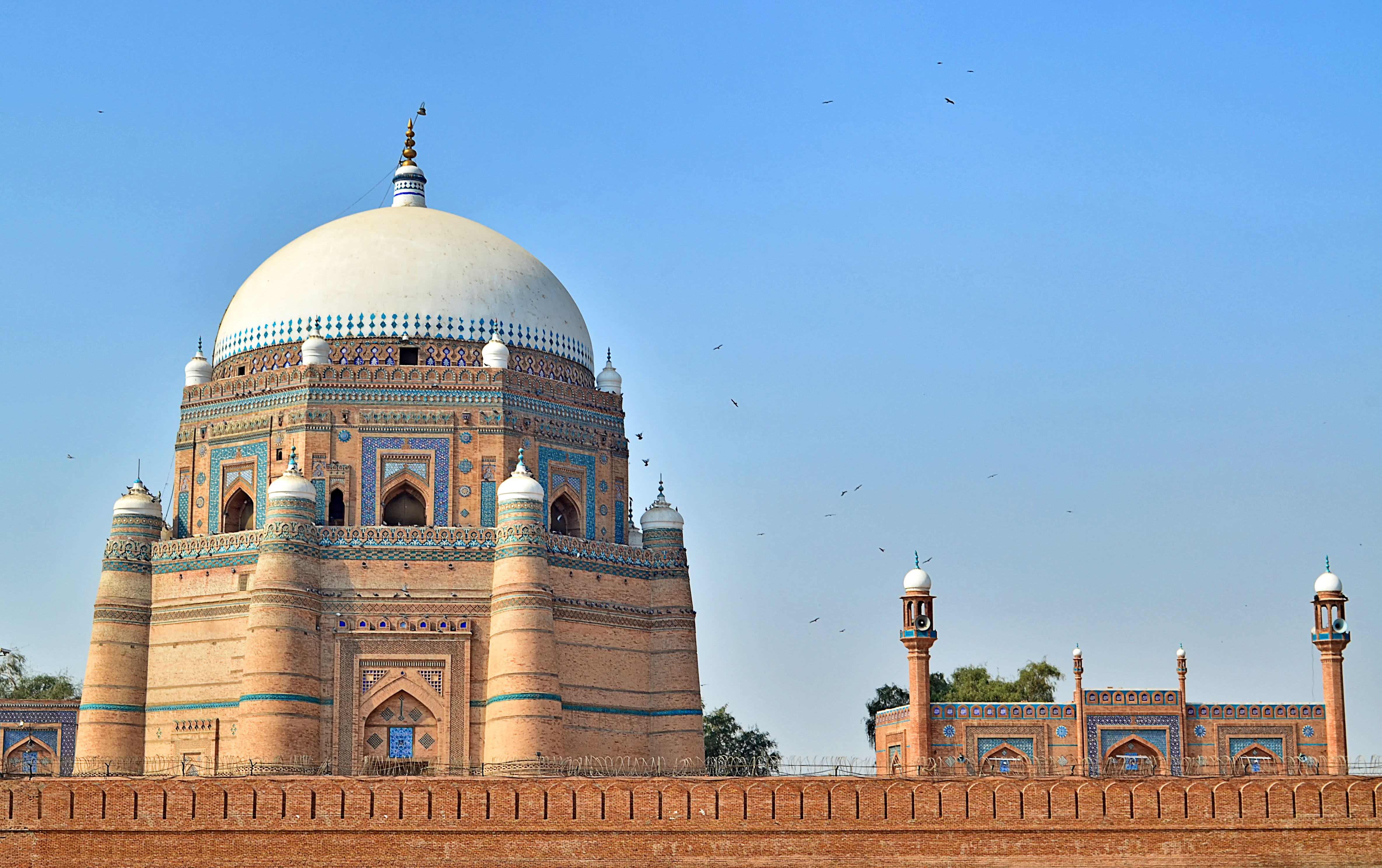 Tomb of Shah Rukn-e-Alam This is a photo of a monument in Pakistan identified as the PB-105